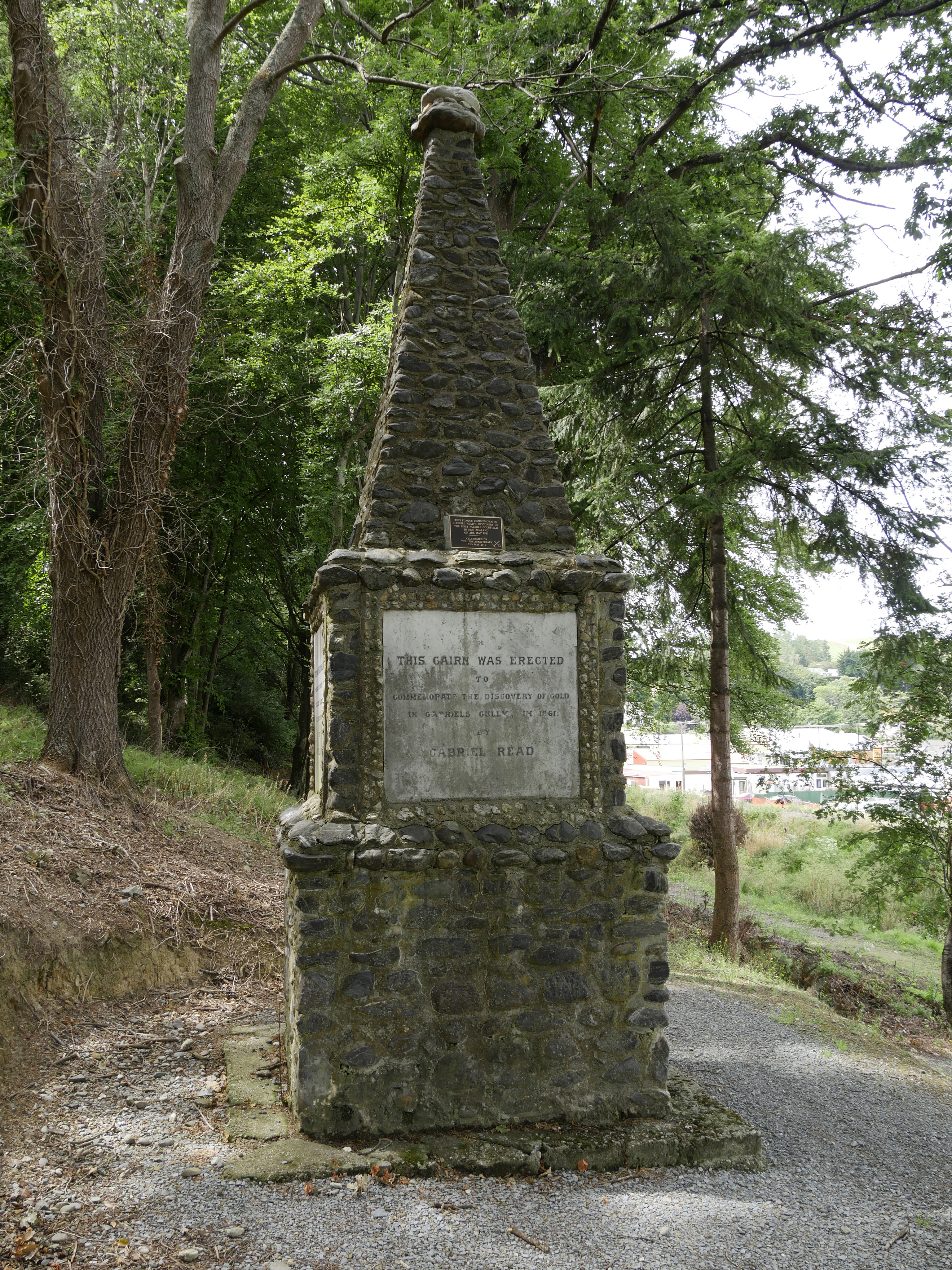 Gabriel's Gully, Cairn (Memorial), Otago Region, South Island, New Zealand